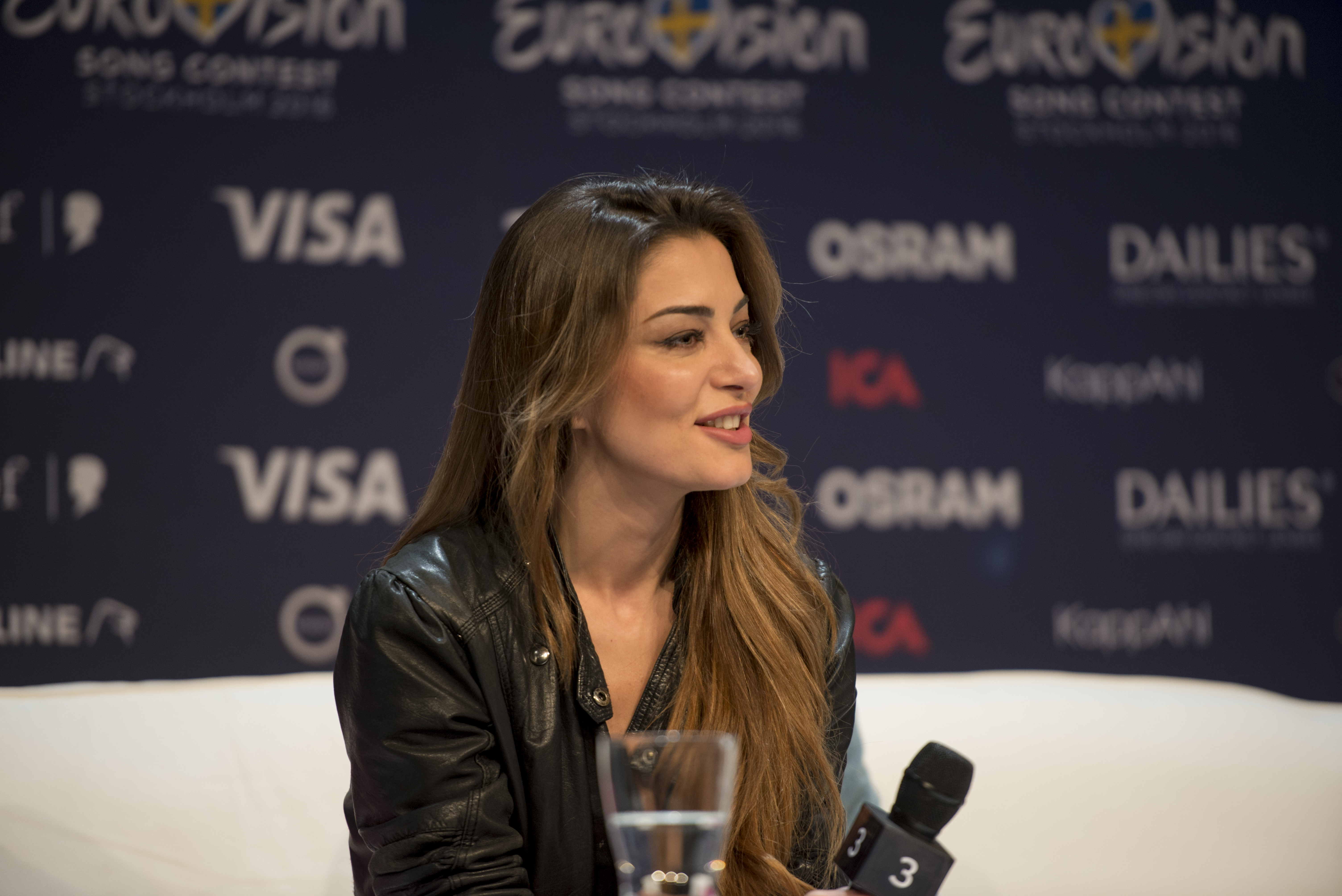 Iveta Mukuchyan at a Meet & Greet during the Eurovision Song Contest 2016 in Stockholm. (Help translate this text)